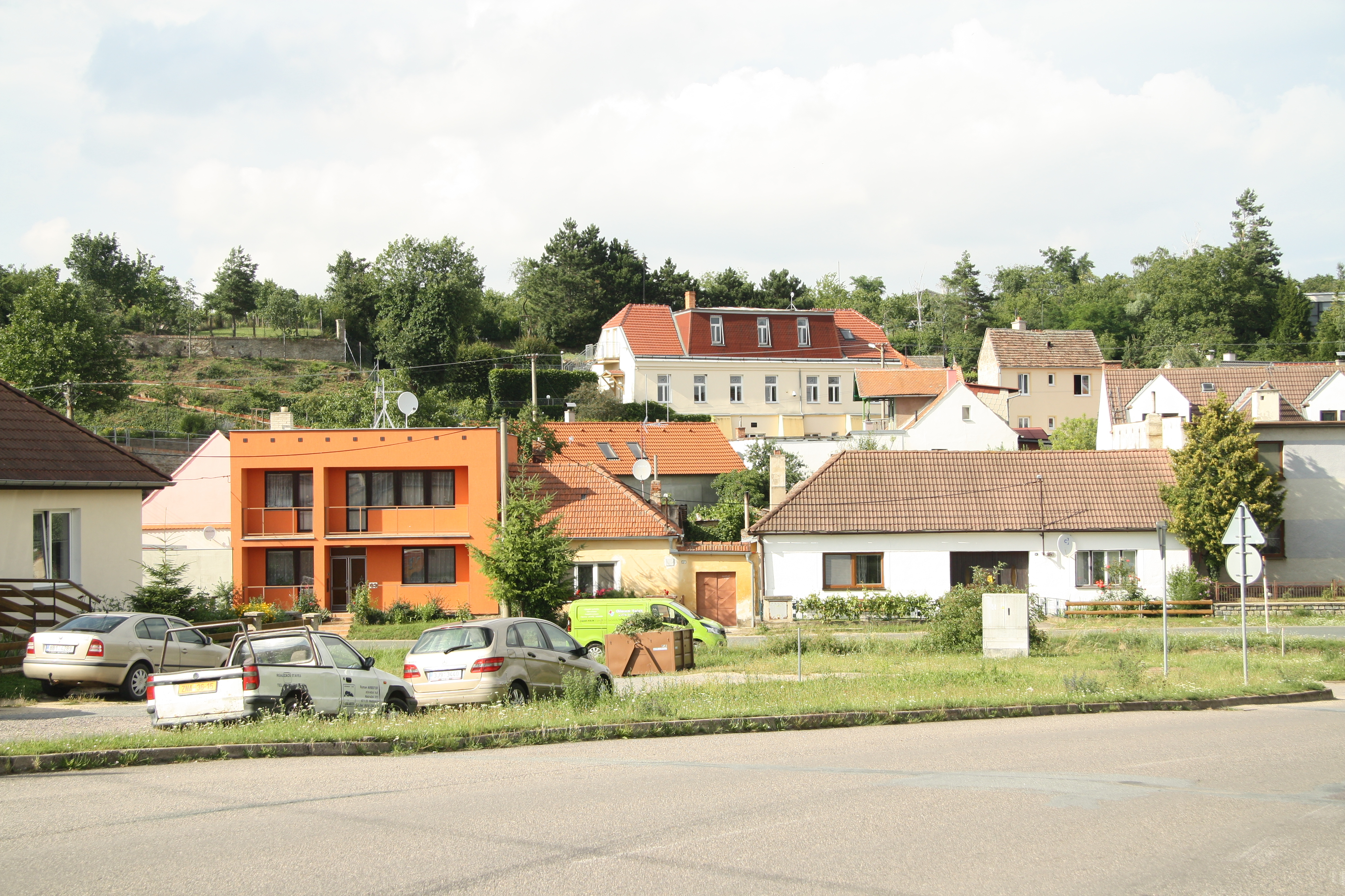 Center of Suchohrdly, Znojmo District.